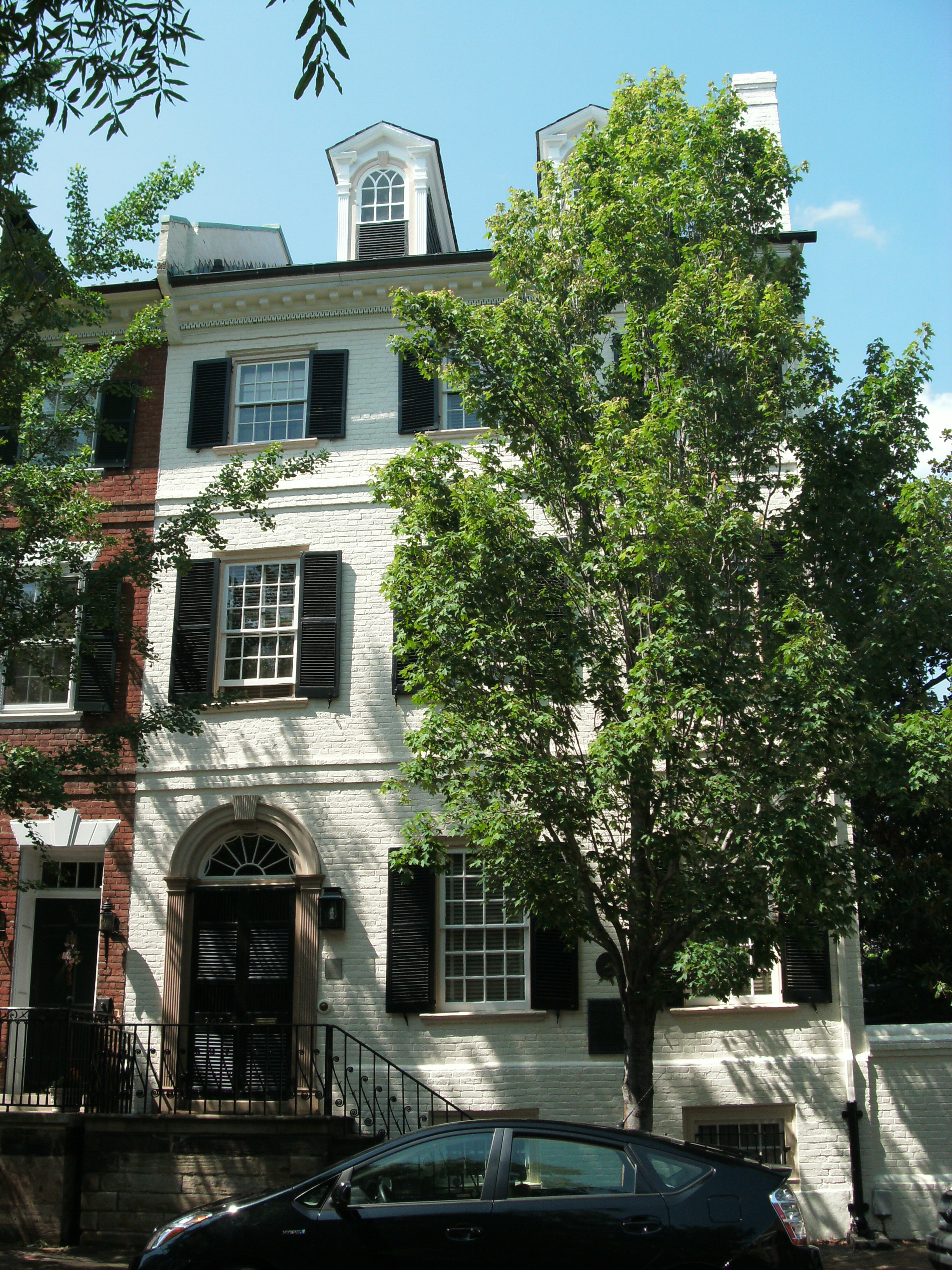 Image I took for Wikipedia